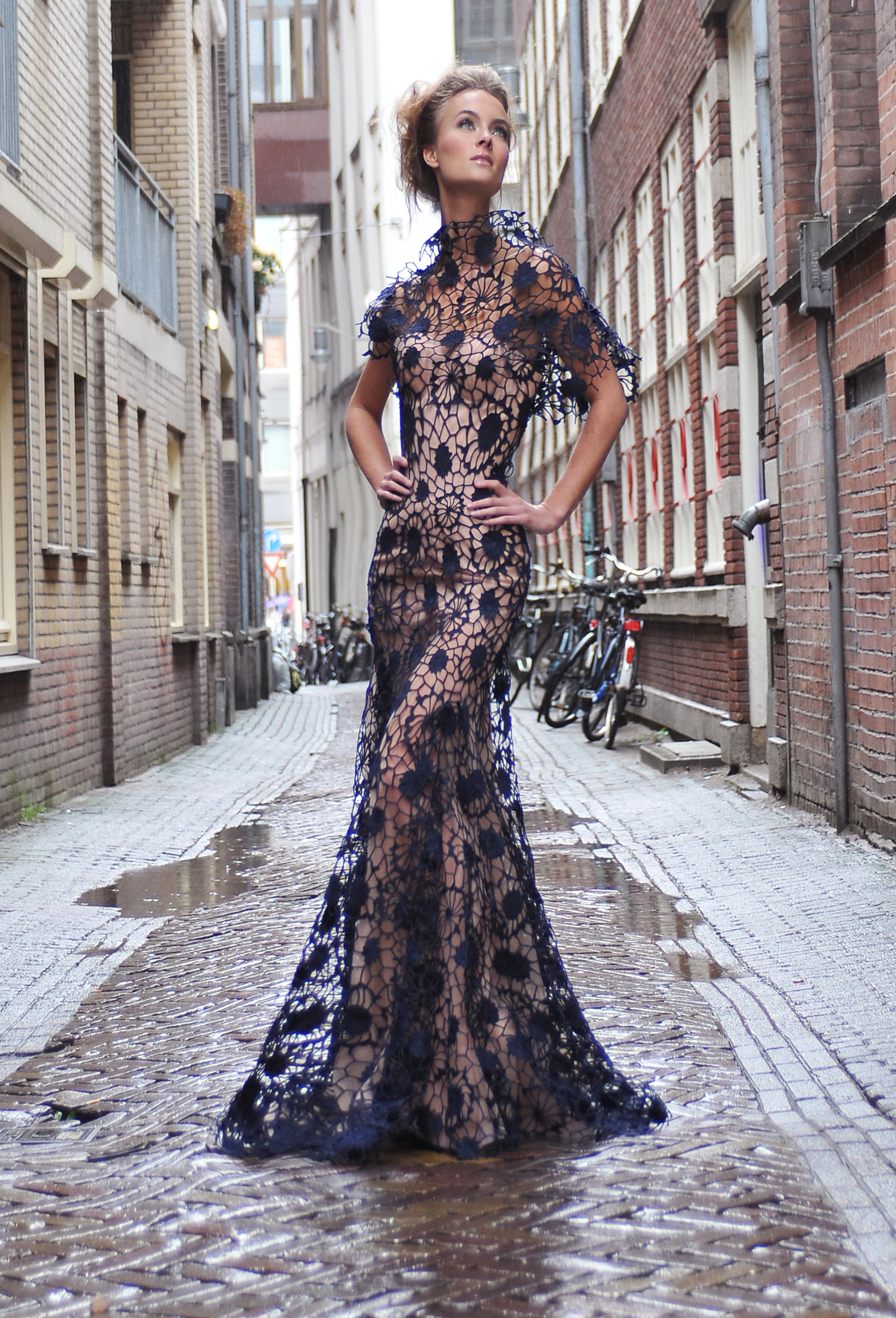 Nicolas Felizola 2012